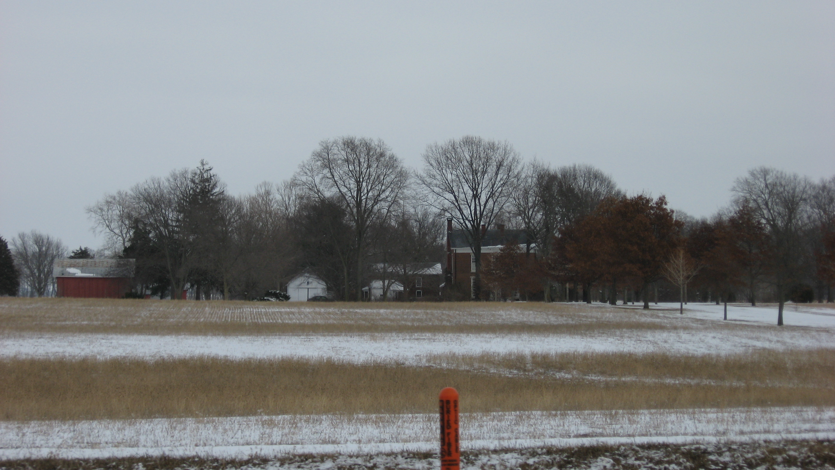 Fields and buildings at the James Marr Farm, located along Marr Road north of Columbus in Columbus Township, Bartholomew County, Indiana, United States. Built in 1871, it is listed on the National Register of Historic Places.